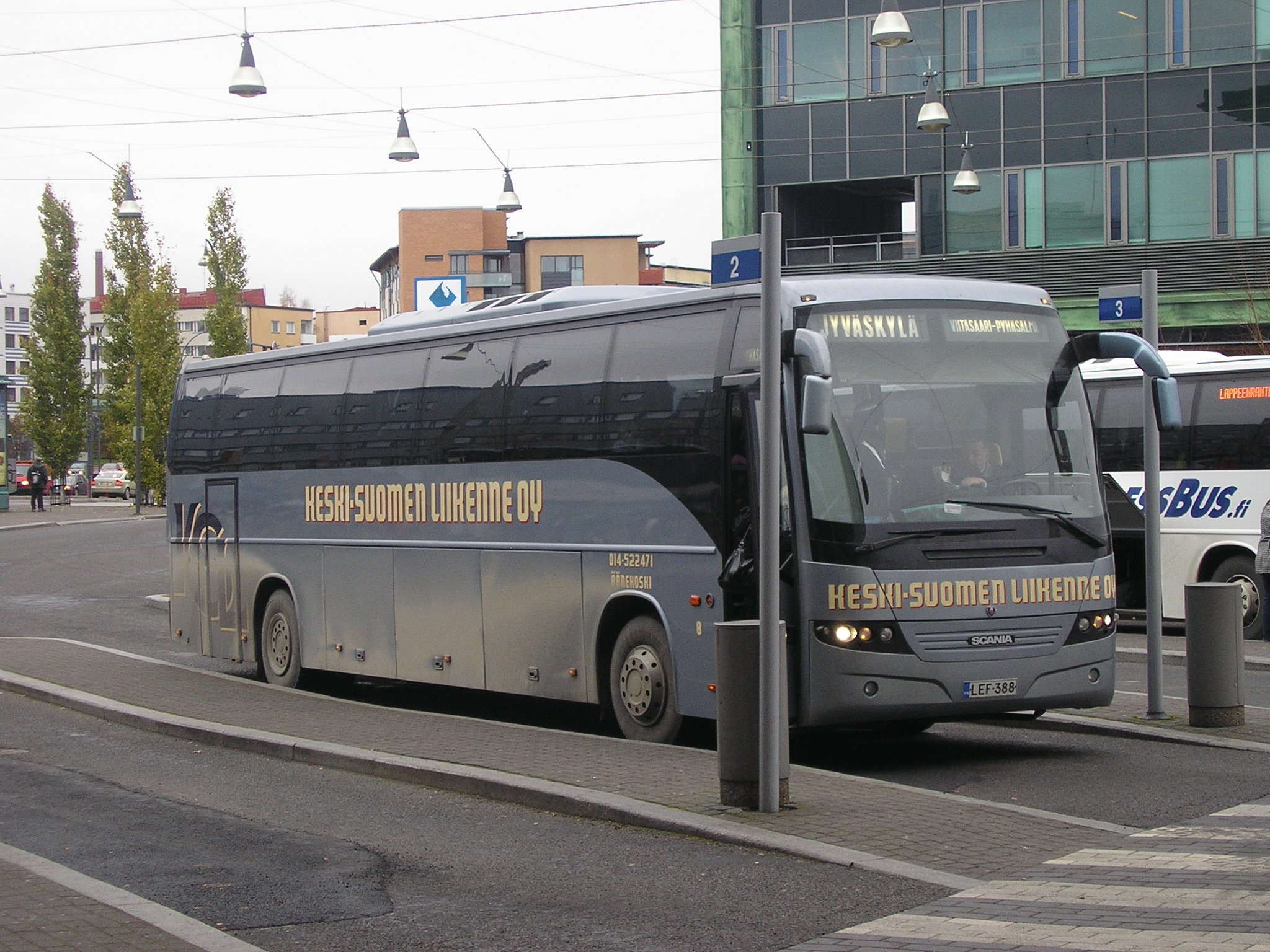 Keski-Suomen Liikenne Scania K114 Carrus Star 503 (no. 8, LEF-388, 2001) at Jyväskylä bus station, Finland.